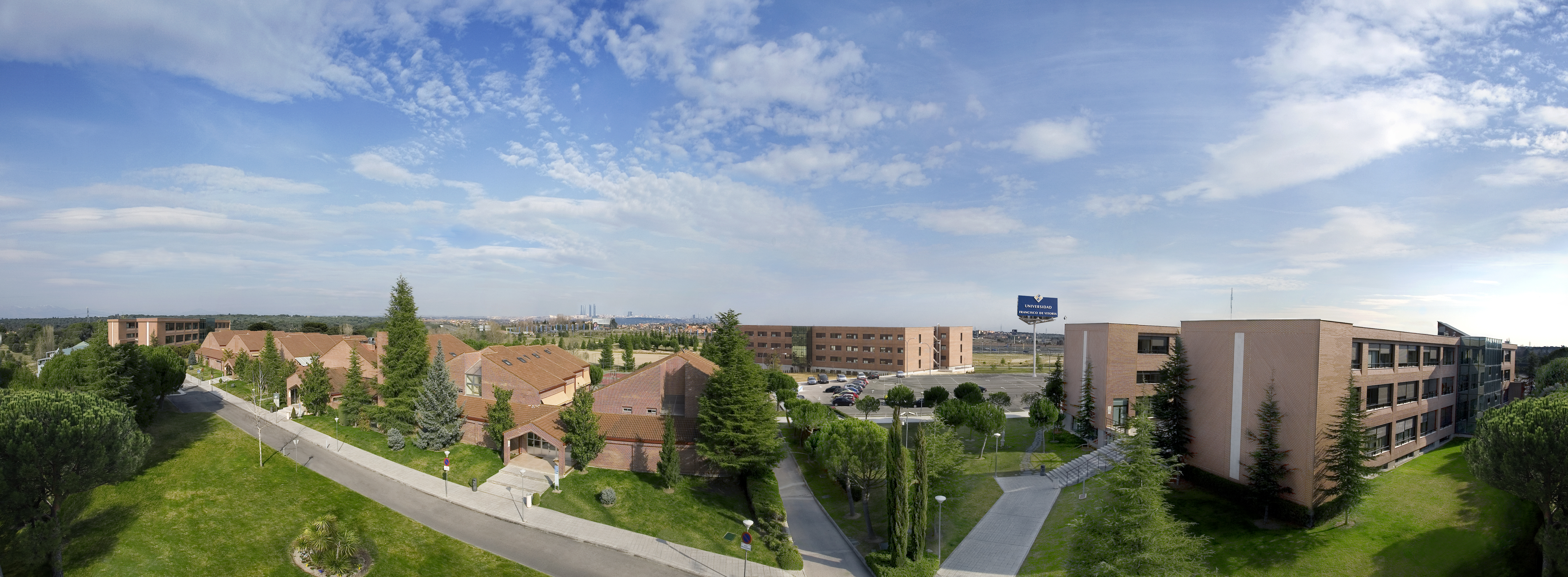 Panorámica del Campus de la Universidad Francisco de Vitoria, Madrid. Esta foto está trucada y no es una representación real de la situación de los edificios. La parte central y derecha de la foto tiene perspectiva correcta desde el punto (40.44020, -3.83559) pero desde ese punto los dos edificios altos de ladrillo de la izquierda quedarían más a la derecha y detrás de los edificios rojos más bajos. Se ha trucado la foto para mover los edificios a la izquierda donde en realidad hay aparcamiento para coches.